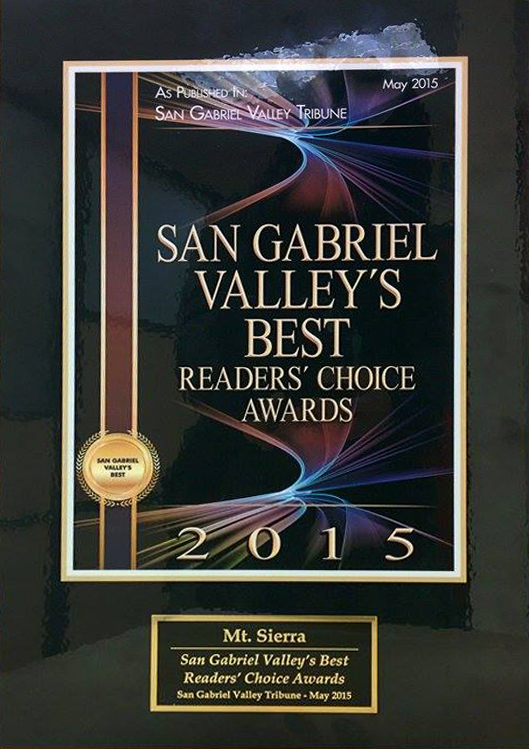 Mt Sierra College receives the 2015 San Gabriel's Best Award